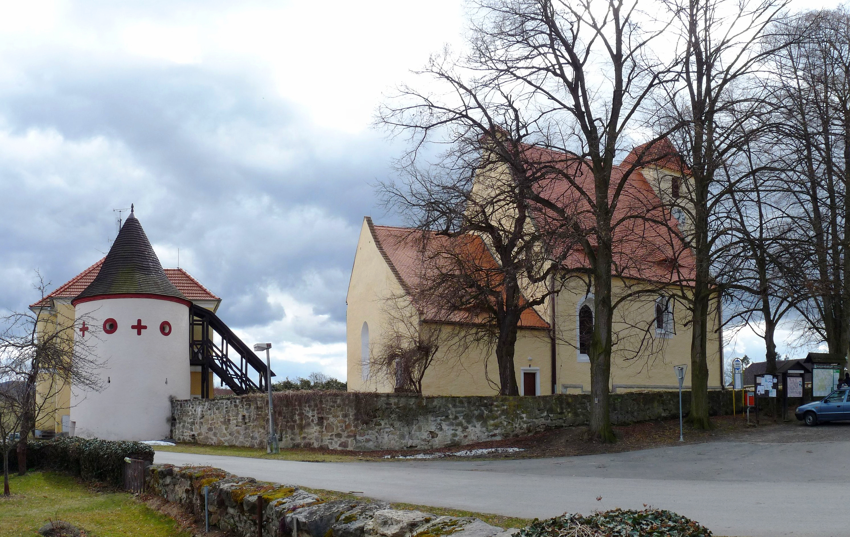 Church of the Beheading of Saint John the Baptist in the village of Žumberk in České Budějovice District, South Bohemian Region, Czech Republic as seen from the north with a fortress bastion.